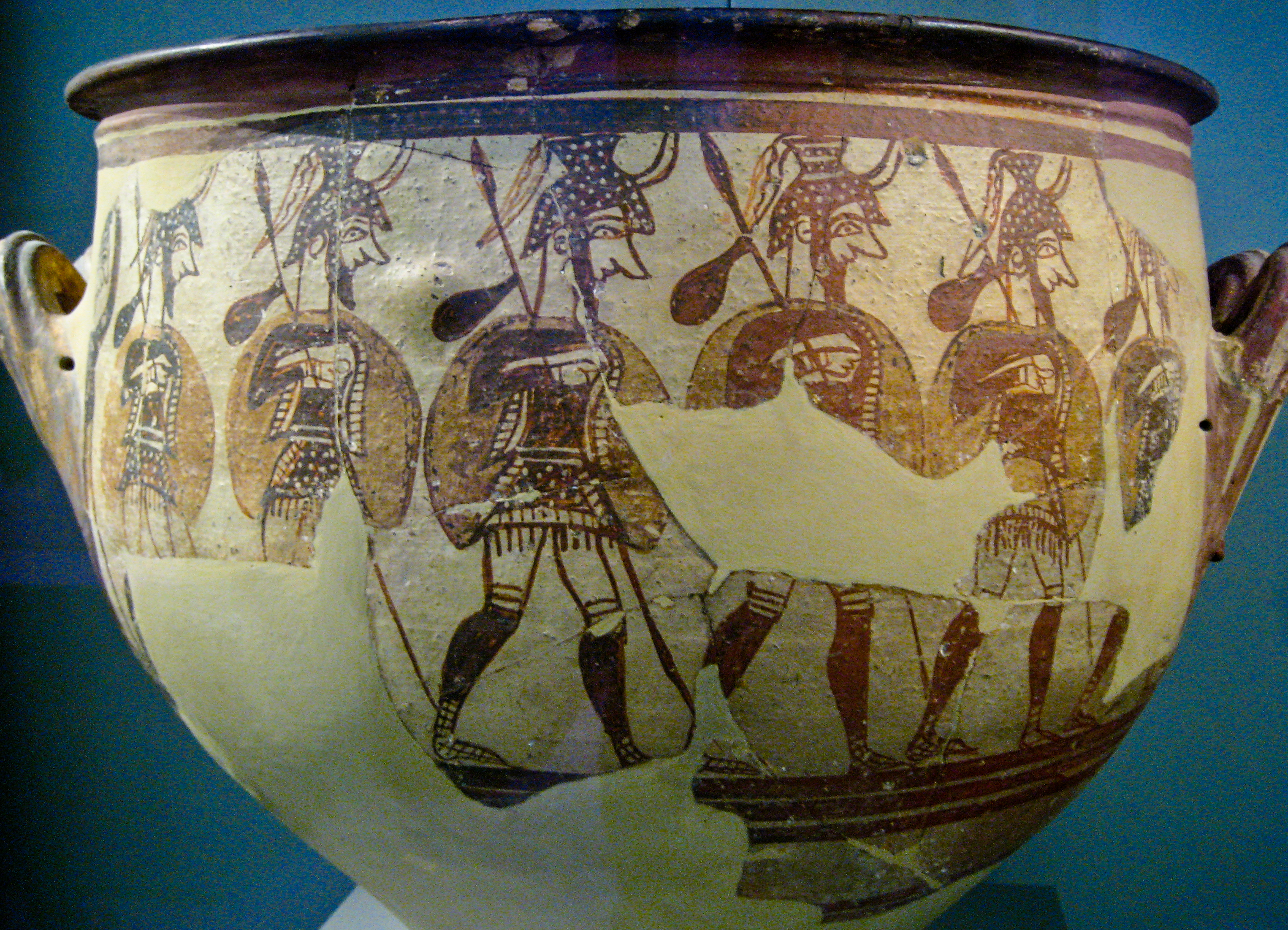 Full armor includes helmet, cuirass, greaves, shield, spear. Carrying supplies hanging from spears. Mycenaean Pictorial Style, from the "House of the Warrior Krater".